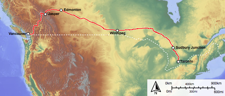 VIA Canadian